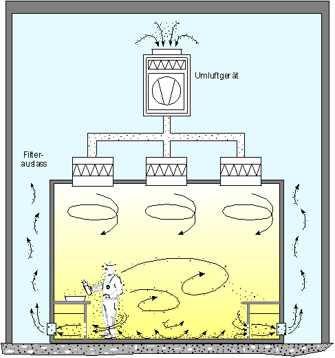 Air flow principle in turbulent cleanrooms